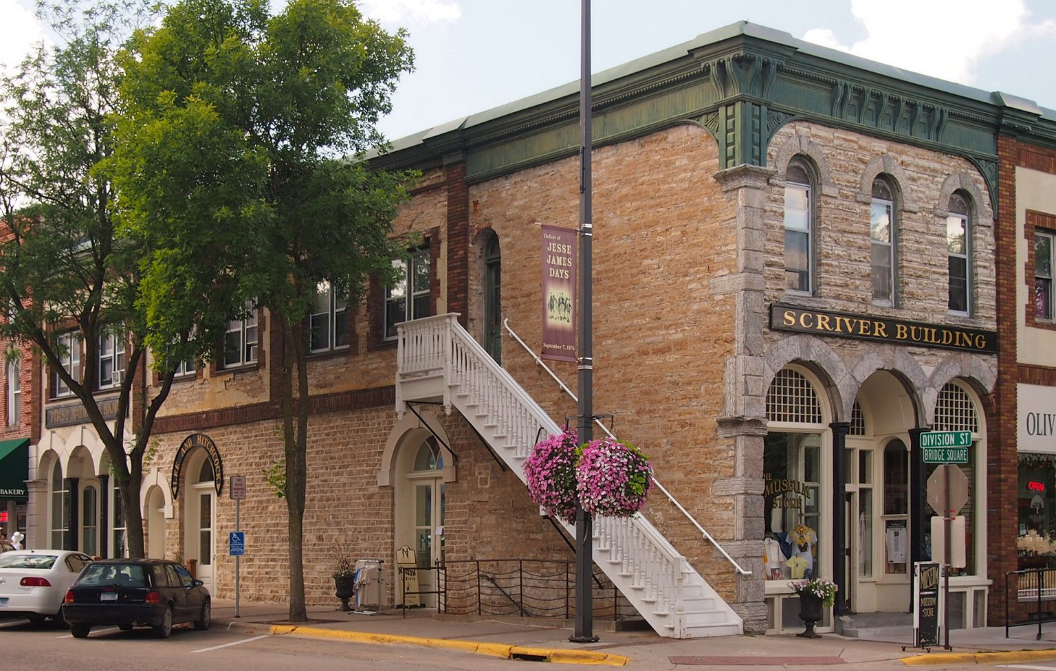 Scriver Building, 408 Division St, Northfield, Minnesota, USA. Viewed from the northeast.